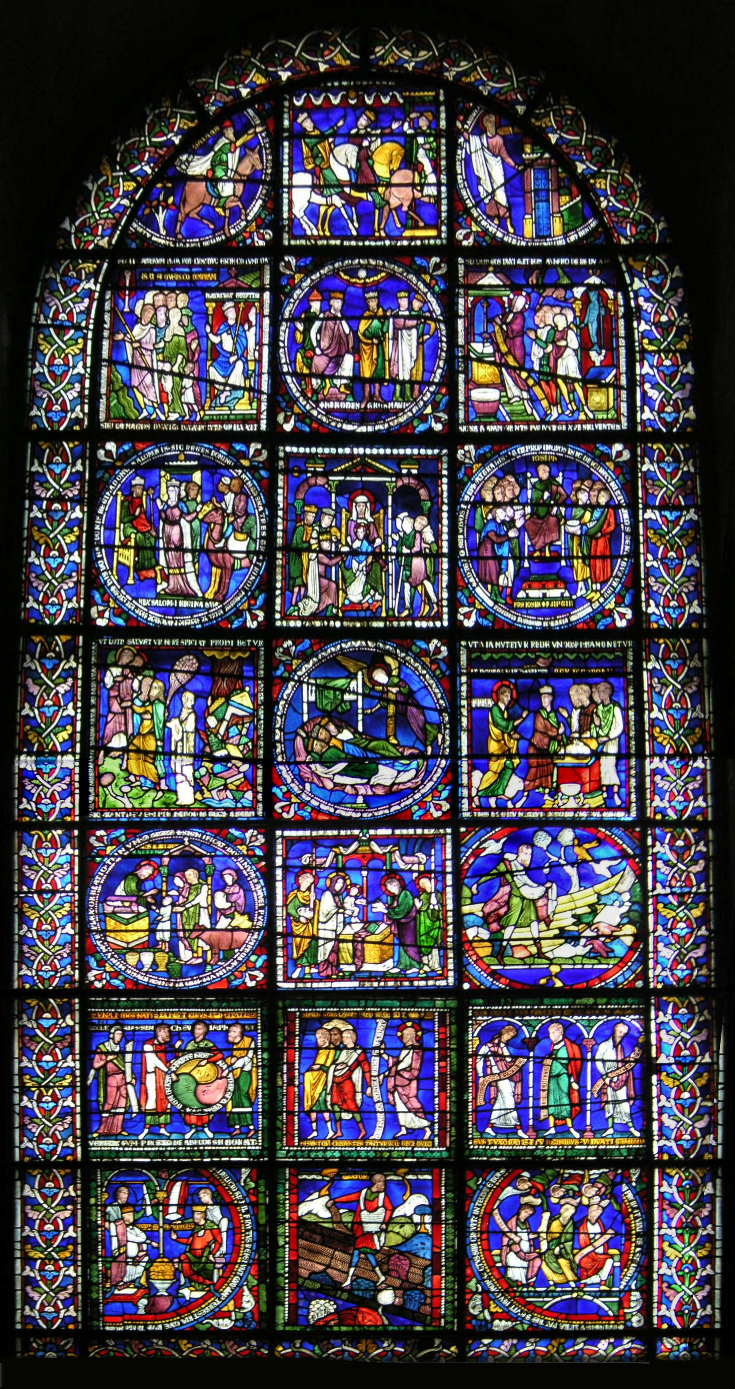 Canterbury Cathedral, Poor Man's Bible window, of salvaged pieces from (probably) three windows, showing Old and New Testament stories and a parable.